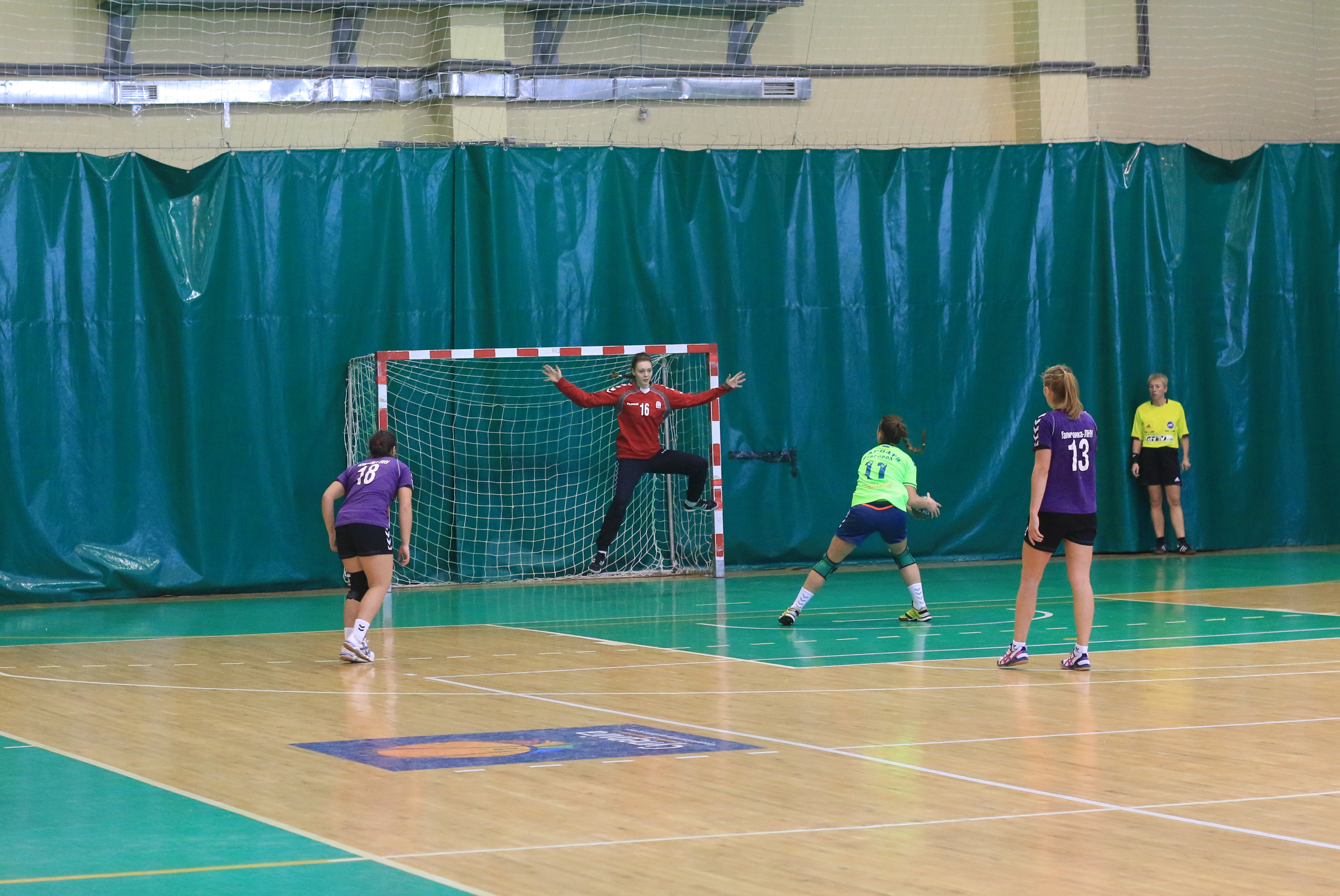 Handball match between Ukrainian teams Halychanka (Lviv) and Karpaty (Uzhgorod) Рerforming a 7m penalty shot